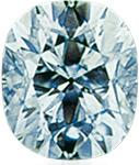 Jubilee diamond owned by Mouawad. Other information permission email sent.